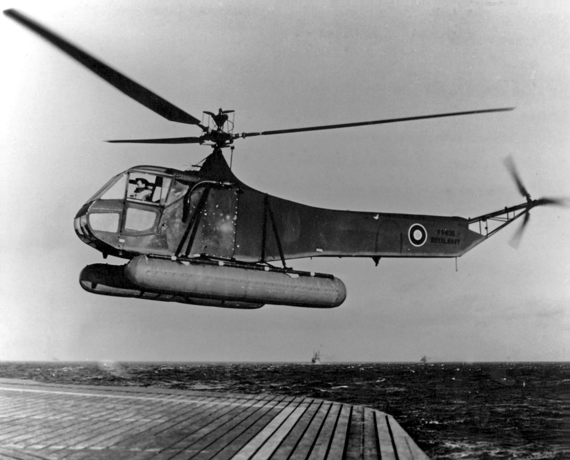 U.S. Coast Guard pilot Stewart R. Graham flies a Sikorsky R-4 Hoverfly (Royal Navy serial FT835) in joint British-American shipboard helicopter trials on board the freighter MV Daghestan in the Atlantic, 1944. The British Admiralty had been impressed by the Sikorsky XR-4 and its anti-submarine potential. These had been confirmed by trials aboard the British freighter MV Daghestan in November 1943. The first British Sikorsky R-4 was accepted in March 1944 in the USA. A second batch was sent to the UK aboard the escort carrier HMS Thane (D48) in December 1944. 240 R-4Bs were originally ordered for the Royal Navy and the Royal Air Force, but only 52 were delivered due to the end of the Second World War. FT835 was the YR-4B (ex USAAF s/n 42-107246) and it sailed for UK aboard the Daghestan on 6 January 1944. It was fitted with floats and is believed to have flown convoy-protection trials from Daghestan during the trans-Atlantic voyage. FT835 arrived General Aircraft Ltd. Hanworth, London Borough of Hounslow (UK), and issued to the Helicopter Unit early February 1944. it already crashed at Hanworth in May 1944 and it was probably scrapped in 1946.